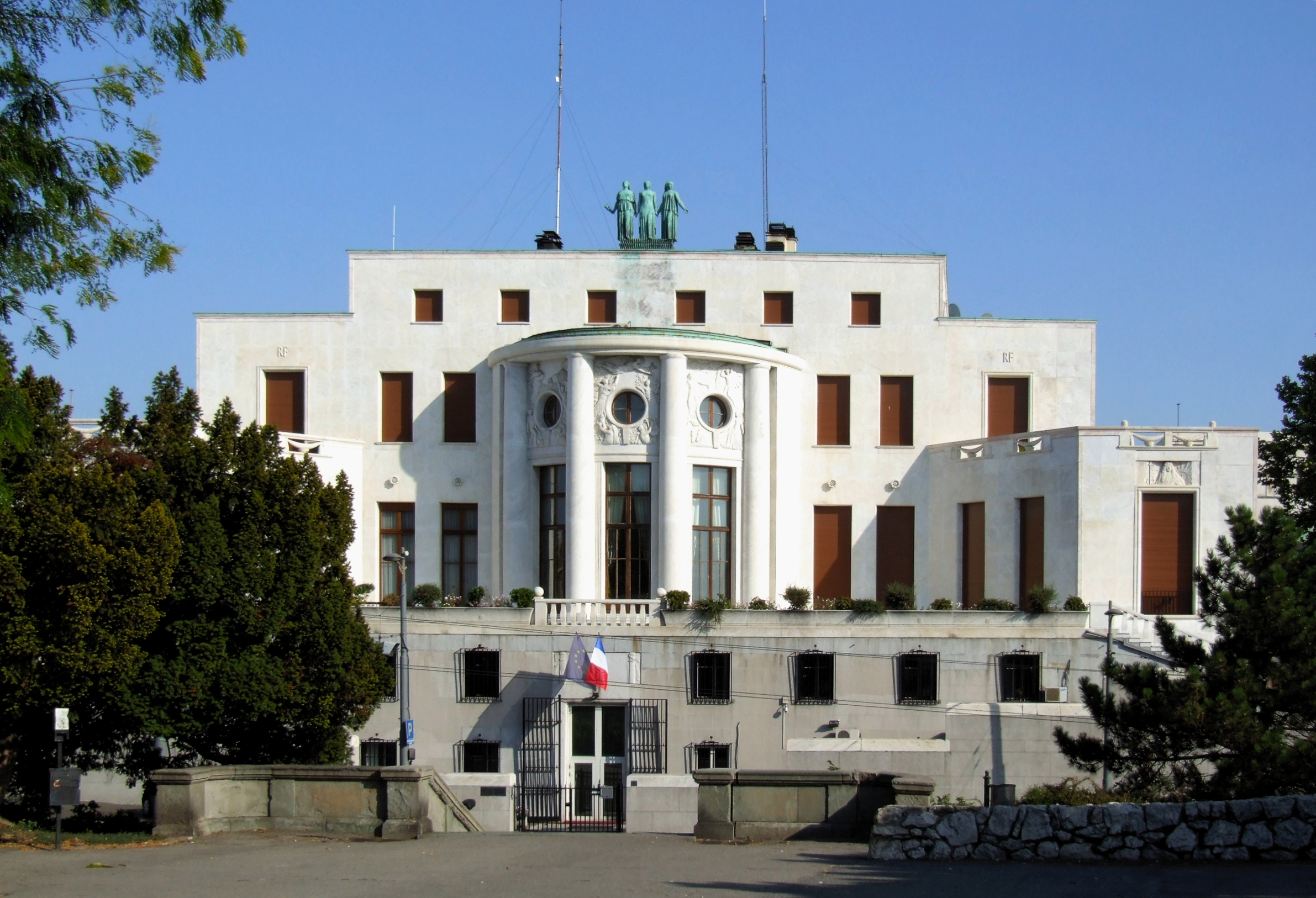 Embassy of France in Belgrade